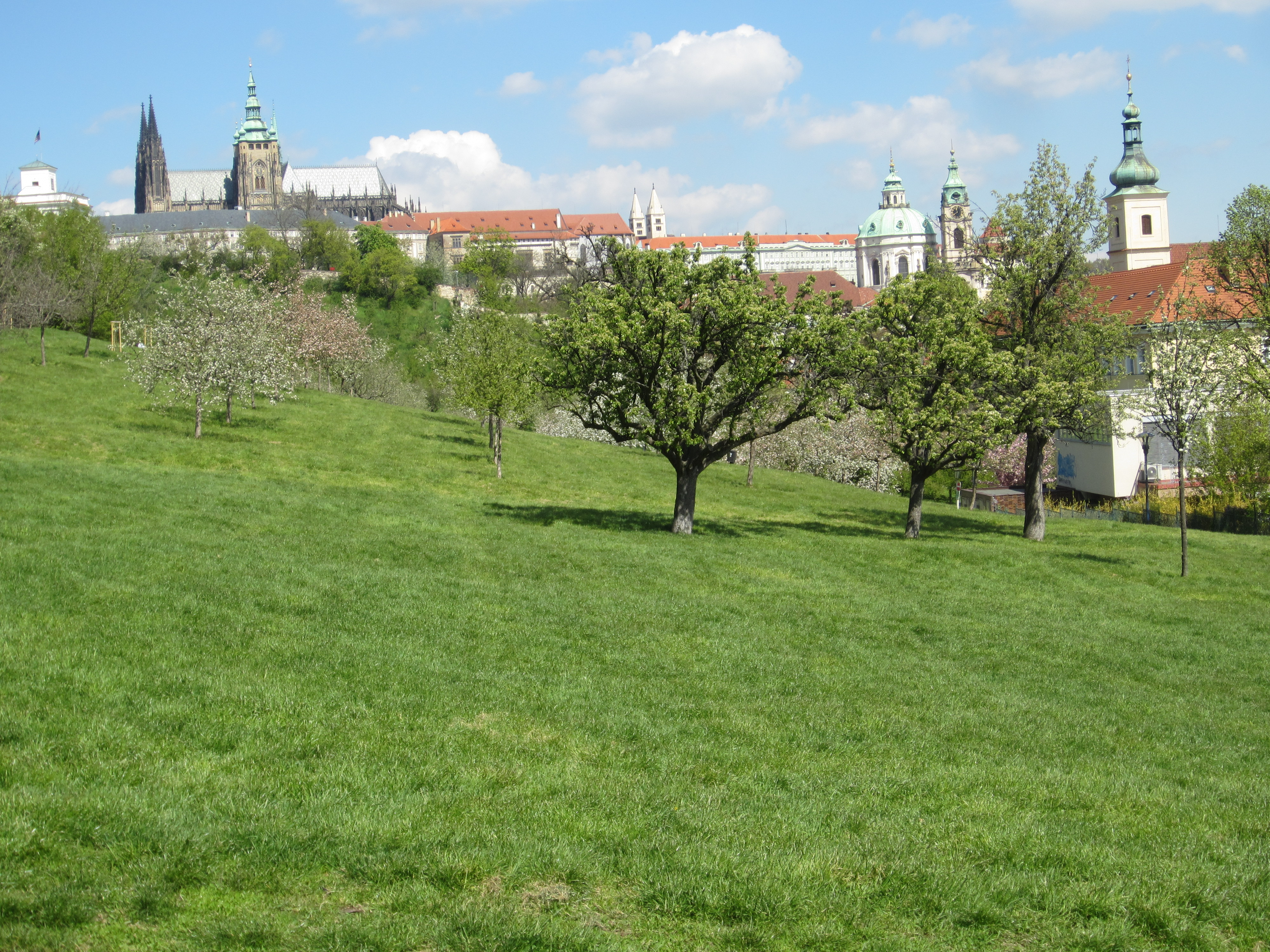 Prague, Czech Republic, April 2016